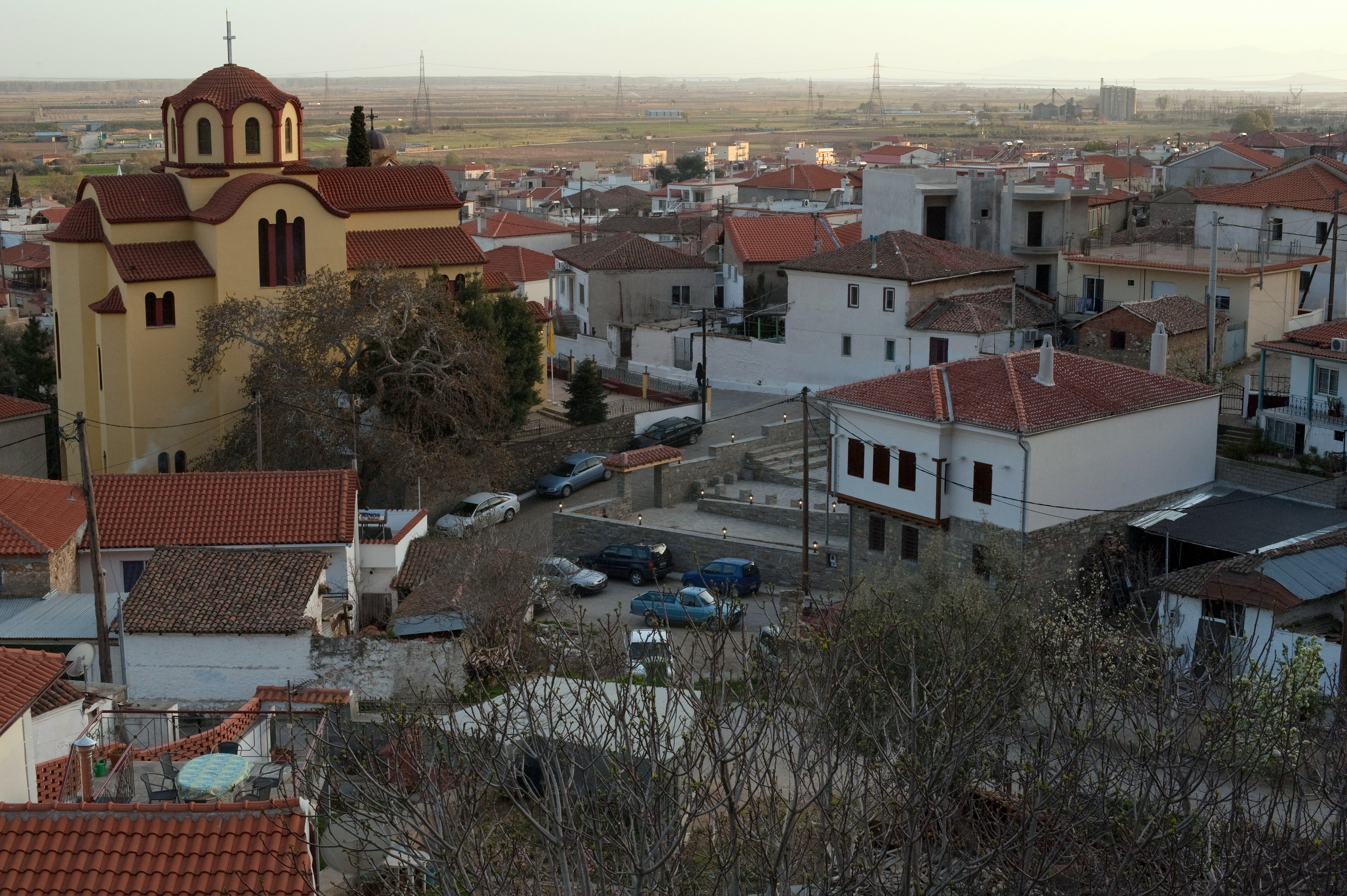 Iasmos village, Rhodope, Thrace, Greece.